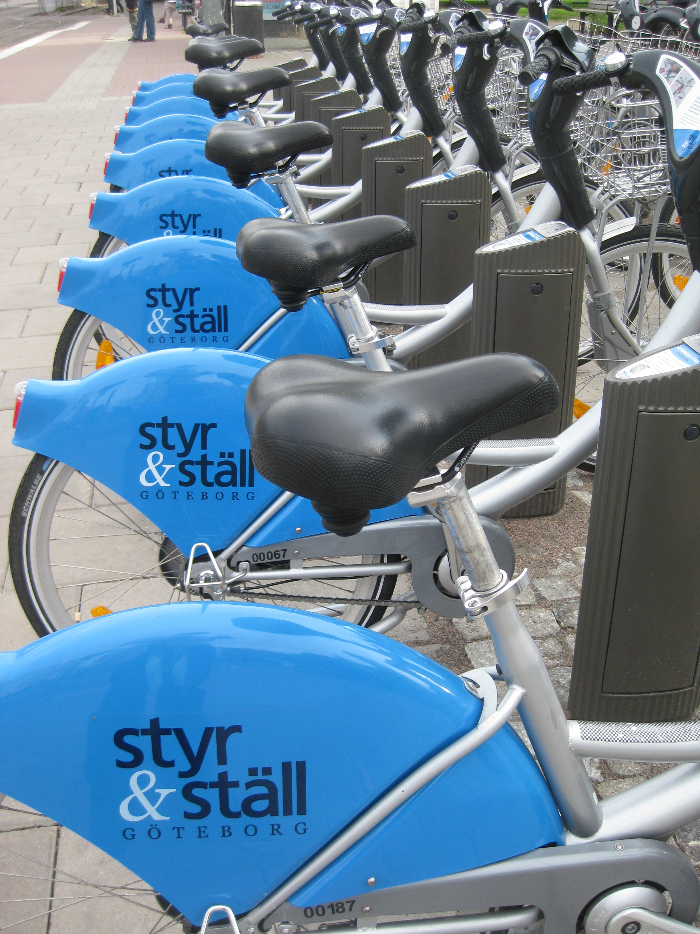 Bikes in the Styr & Ställ bike rental system in Gothenburg, Sweden.